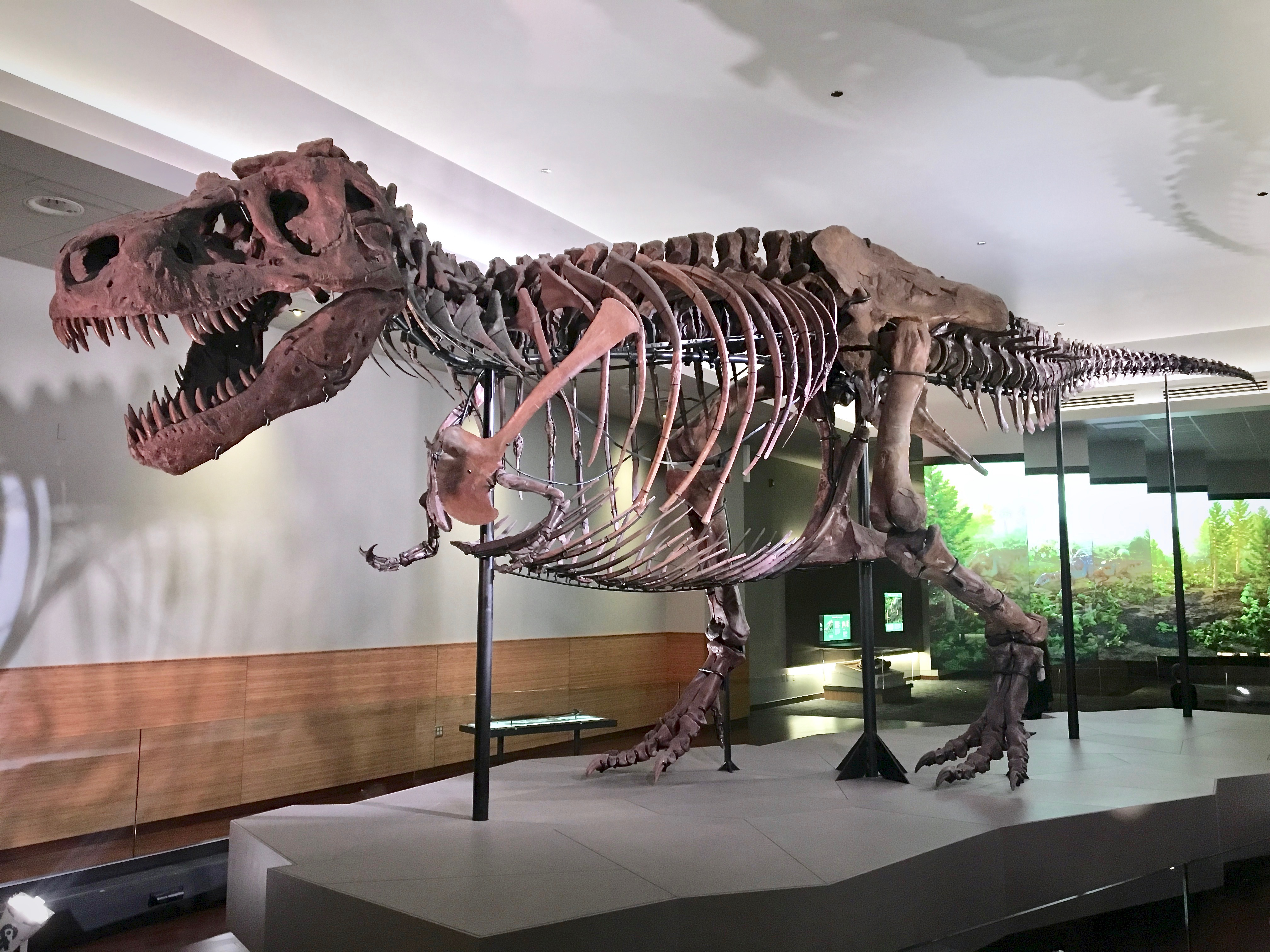 Tyrannosaurus Rex specimen, Sue, on display at the Field Museum of Natural History, Chicago, IL. Originally mounted in the main hall in 2000, it was remounted 2018 as part of the Evolving Planet's Dinosaur Experience.